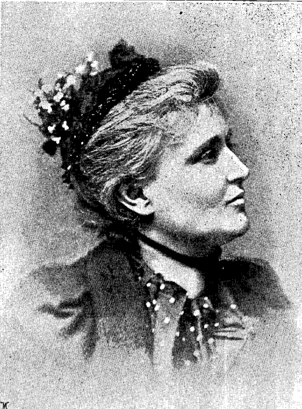 In 1898, Lady Blount published a novel titled Adrian Galilio, or a Song Writer's Story, See Elizabeth de Sodington Blount